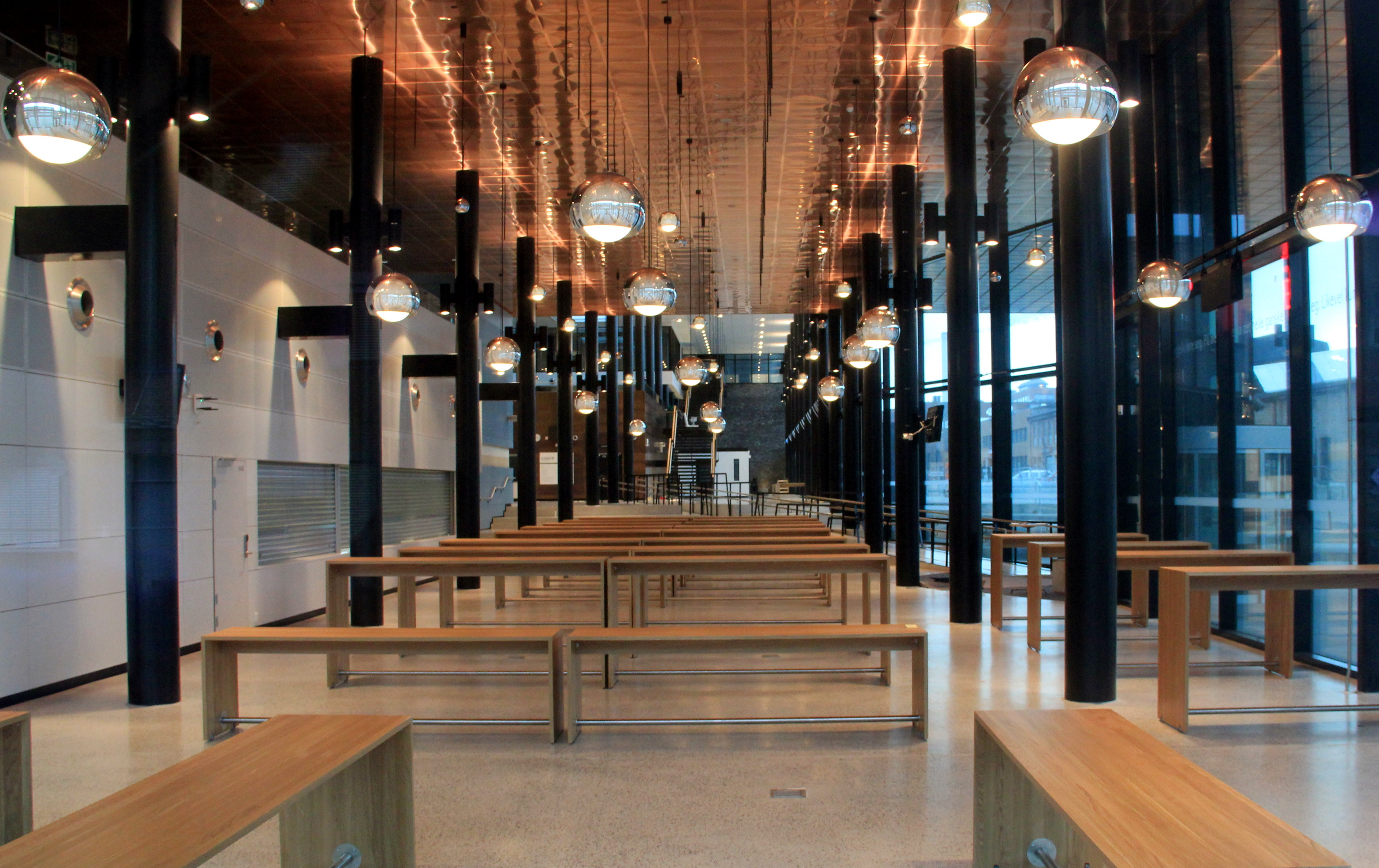 Kuben Yrkesarena, arena for Vocational education, Oslo, Norway - entrance hall